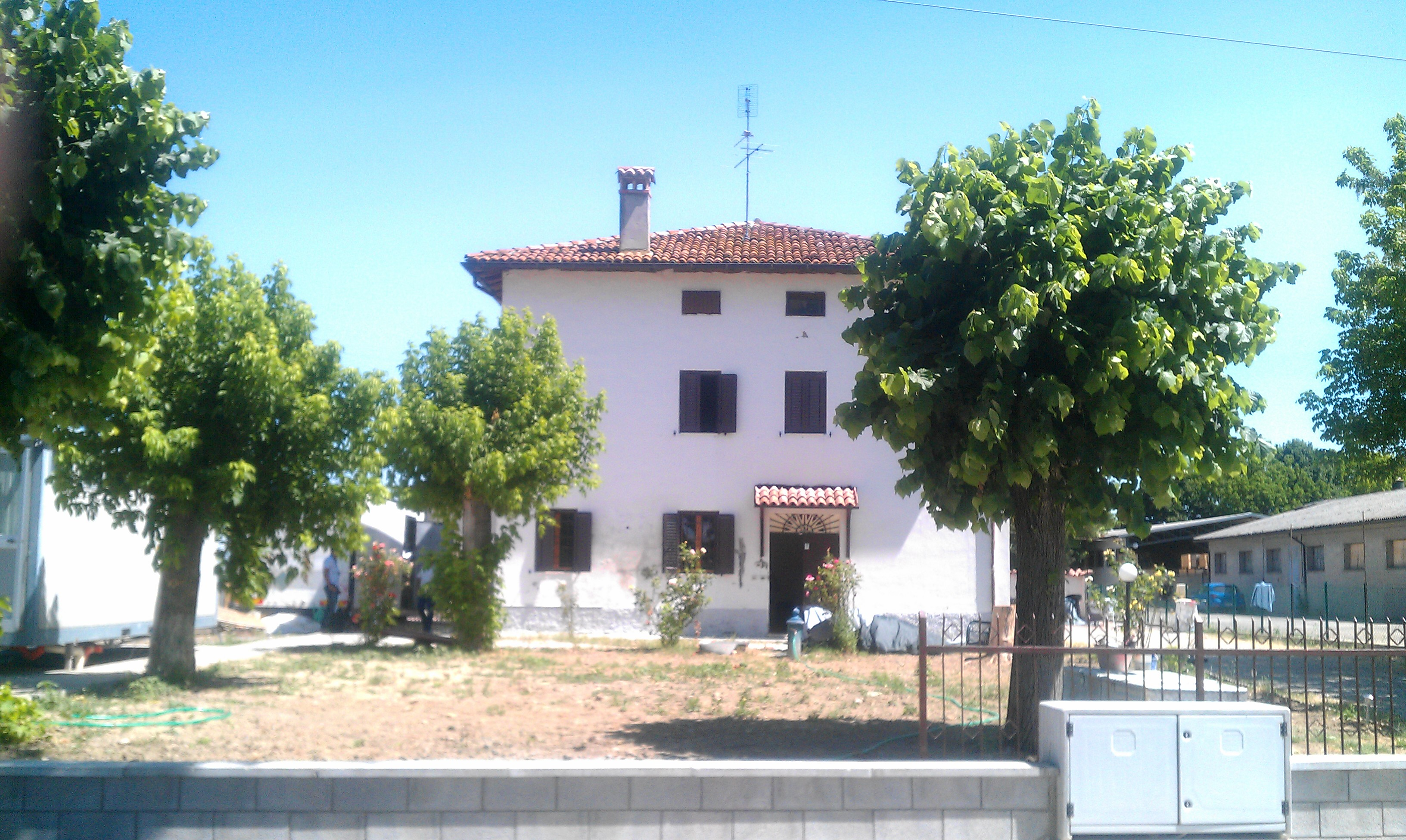 Baitul Tauheed, San Pietro In Casale, Bologna, Italy